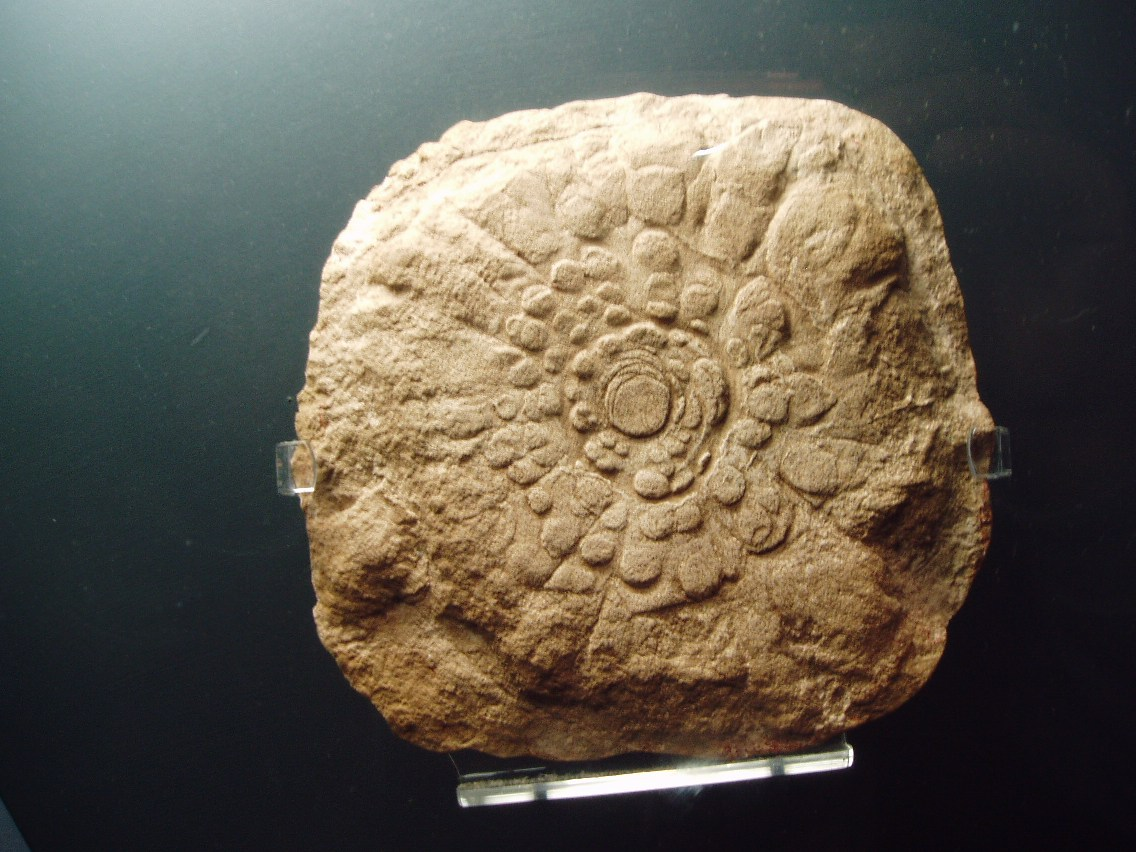 Mawsonites spriggi, fossil, Natural History Museum, London